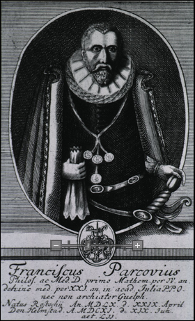 Franciscus Parcovius (1560-1611), physician and lecturer of the Rostock University's Medicine College.